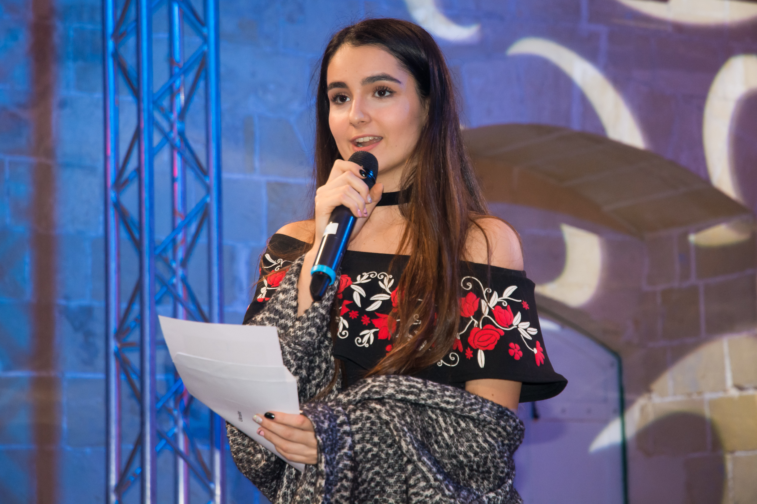 JESC 2016 spokesperson of Ukraine – Anna Trincher (rehearsal)